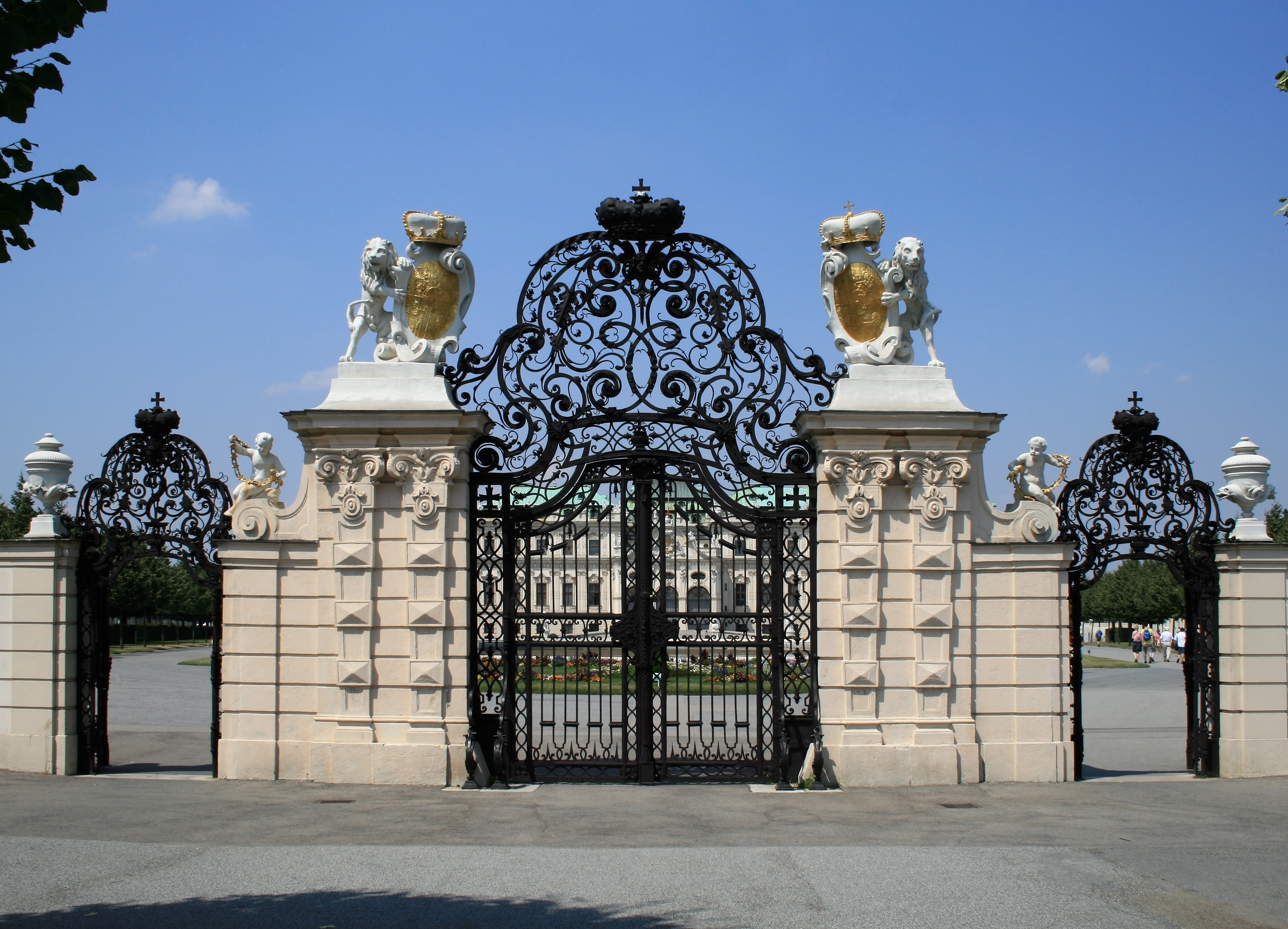 Gate at the upper Belvedere in Vienna.